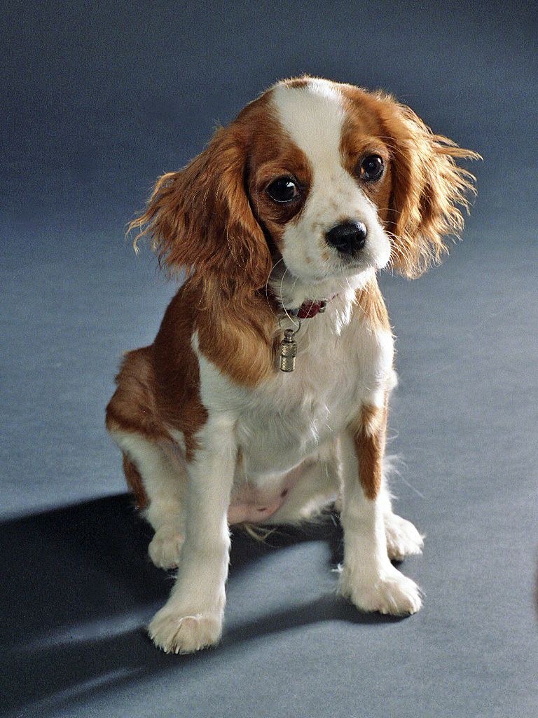 Cavalier King Charles Spaniel, female.